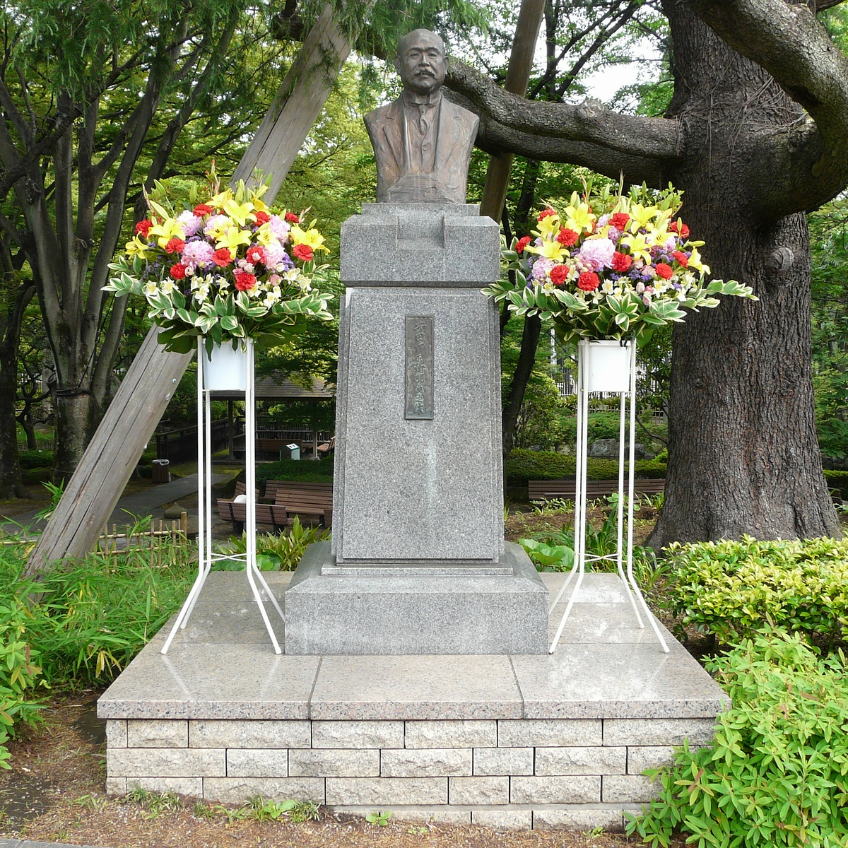 Tokyo-Racecourse-06